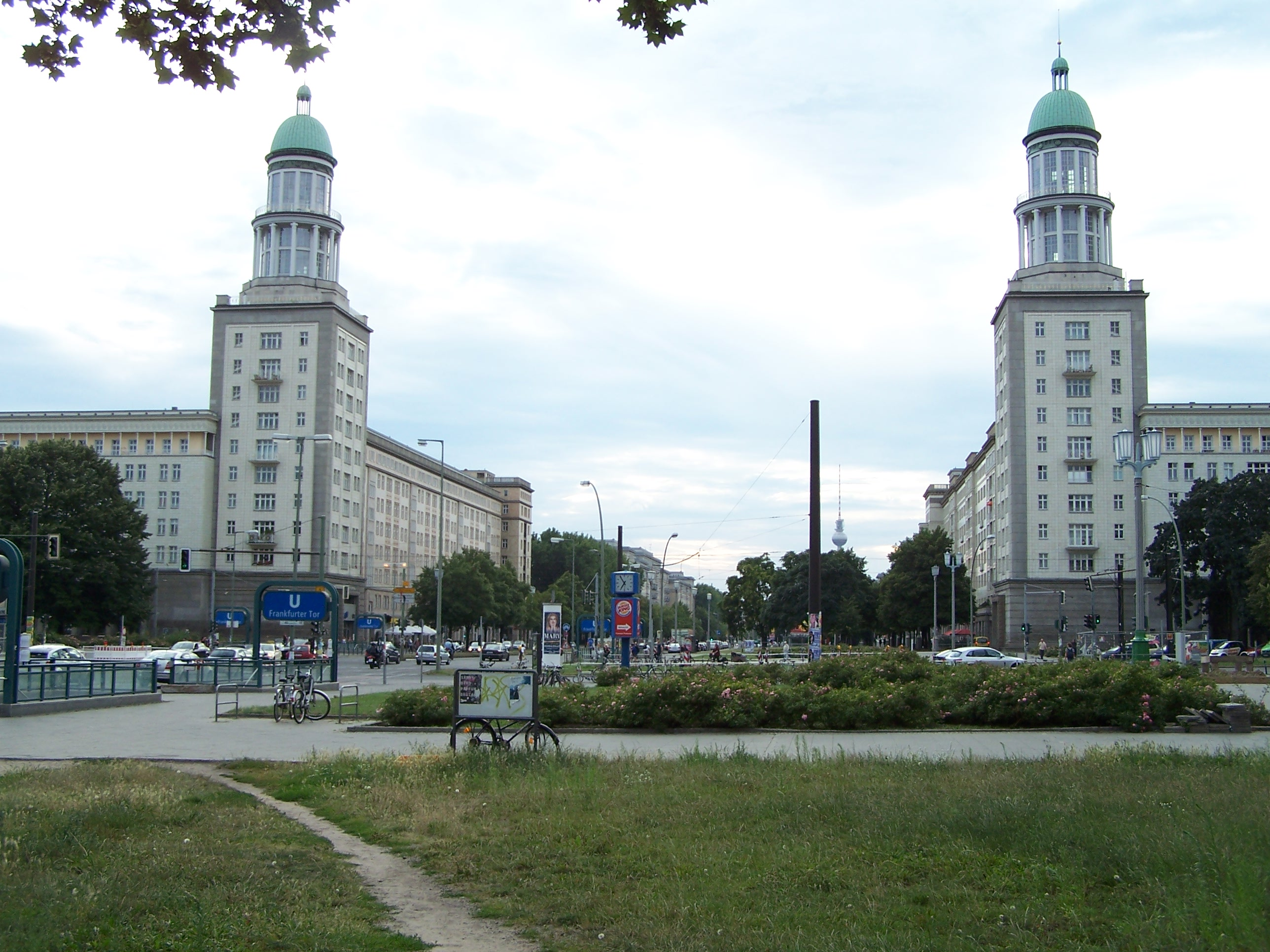 Frankfurter Tor, Berlin